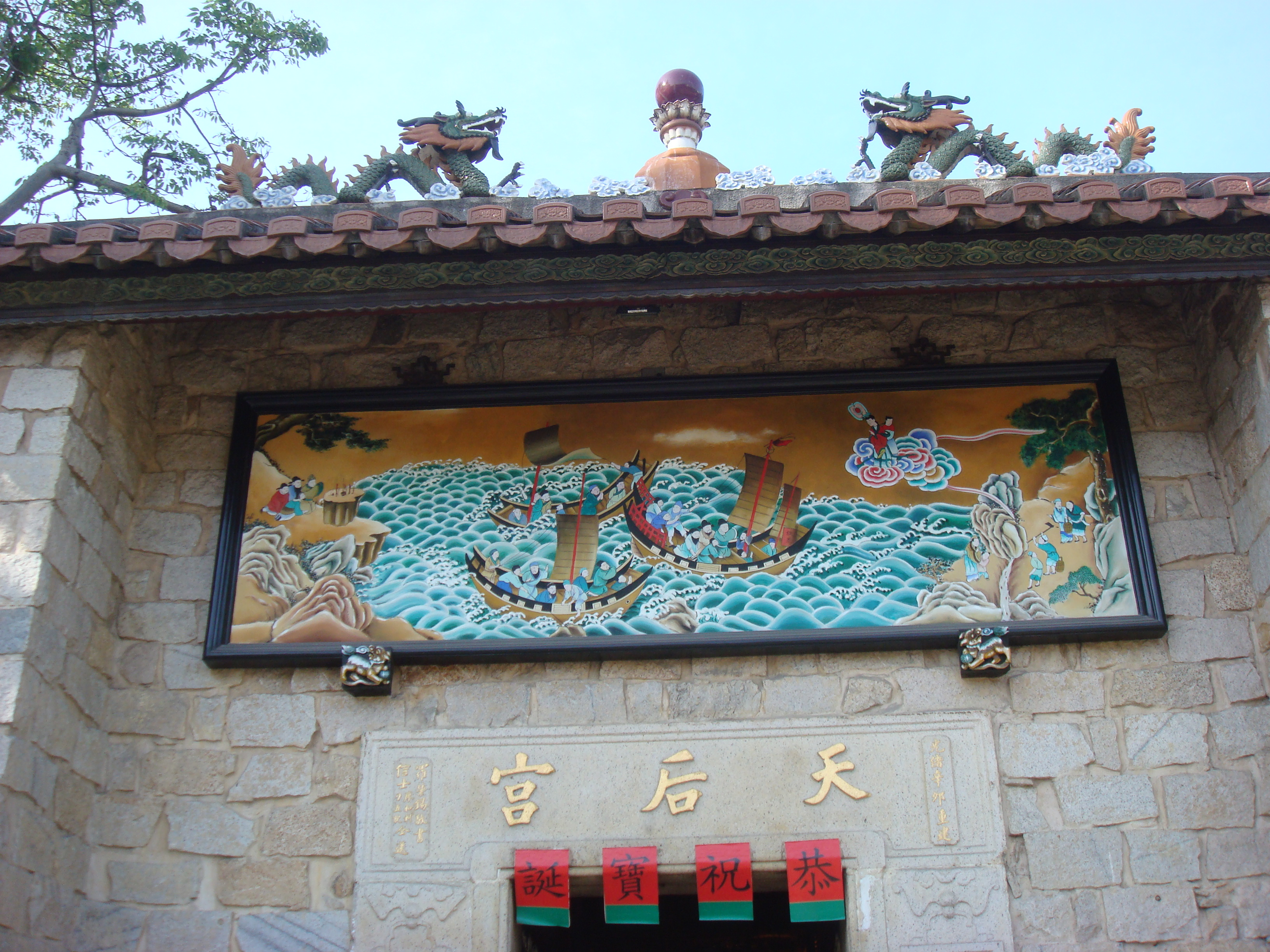 Tin Hau Temple, Cha Kwo Lin